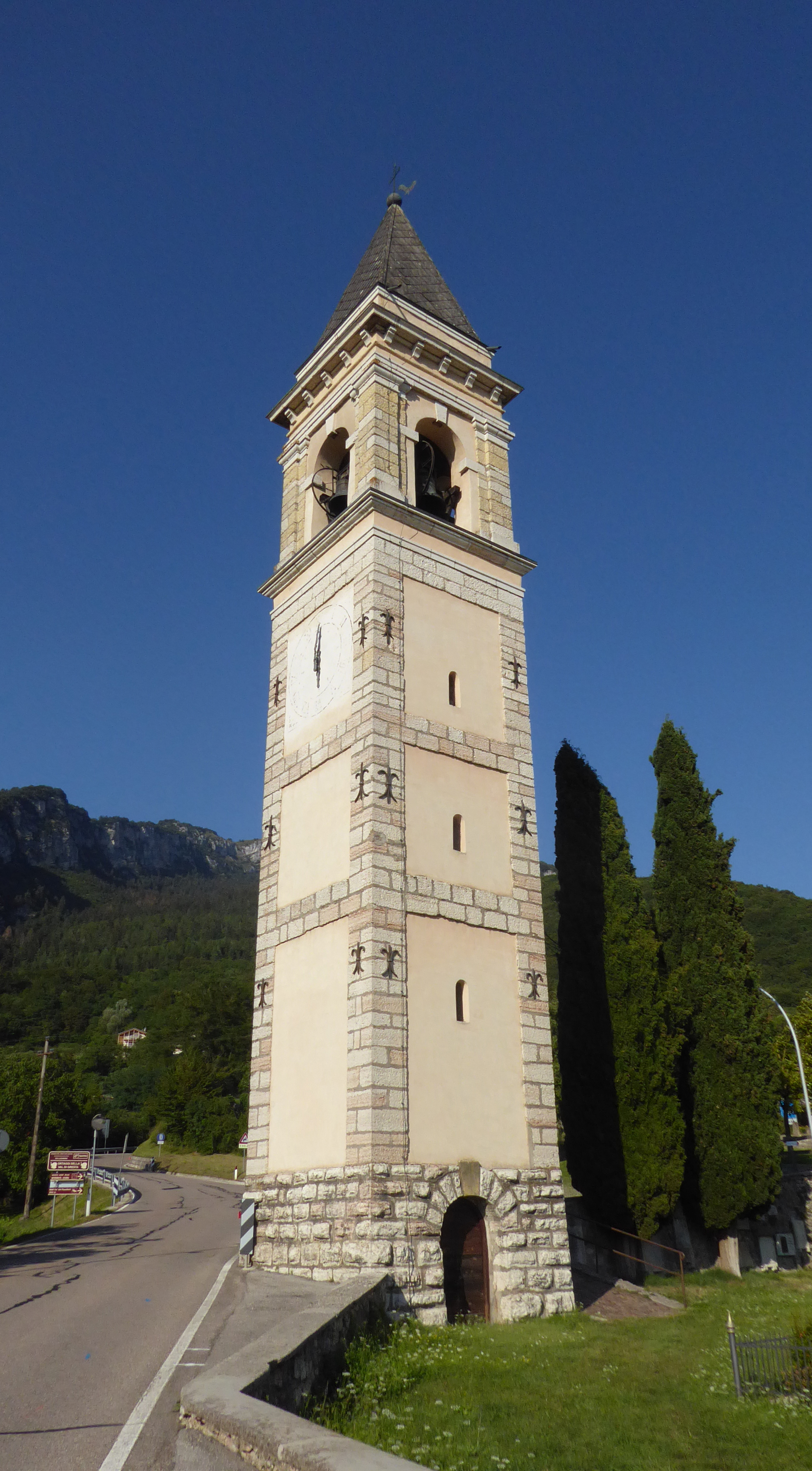 Valle San Felice (Mori, Trentino, Italy), Saints Felix and Fortunatus church - Belltower